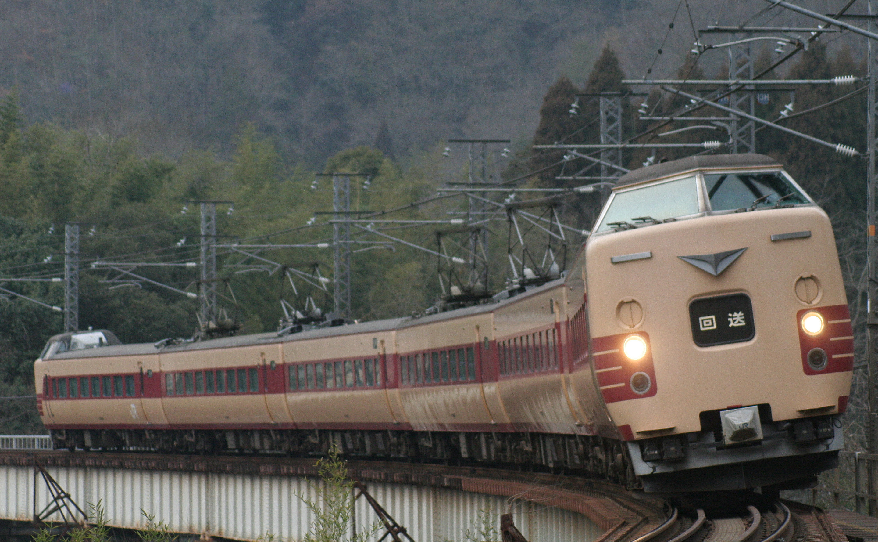 West Japan Railway series 381 Train JNR color Bitchu-kawamo - houkoku